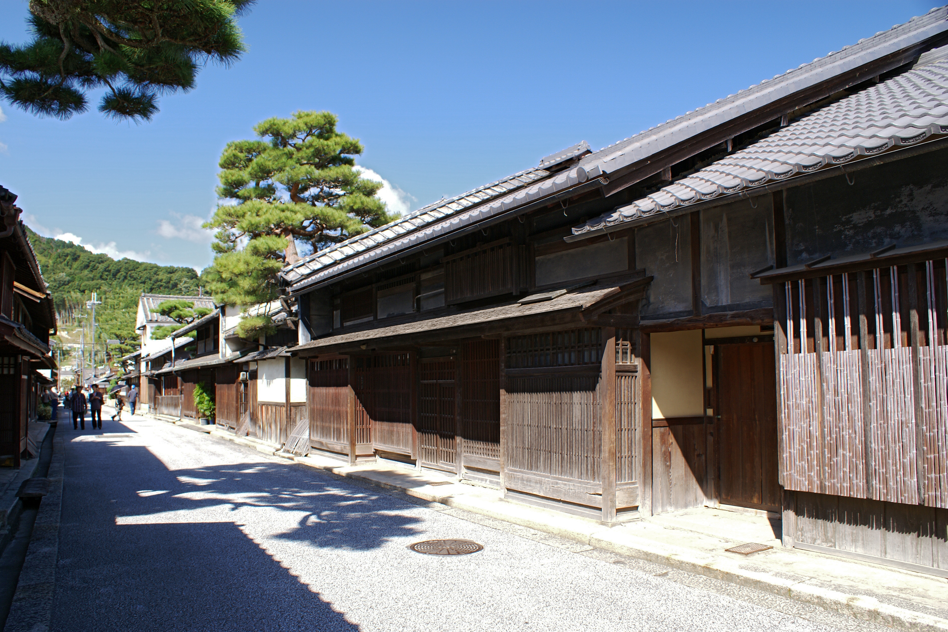 Shinmachi-street in Omihachiman, Shiga prefecture, Japan